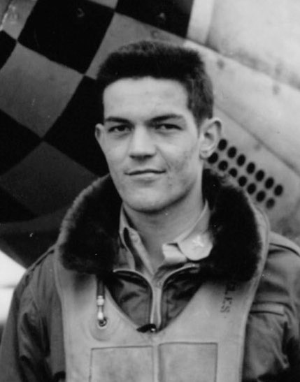 Harrison Bruce "Bud" Tordoff, posing in front of his P-51 Mustang, Upupa epops.